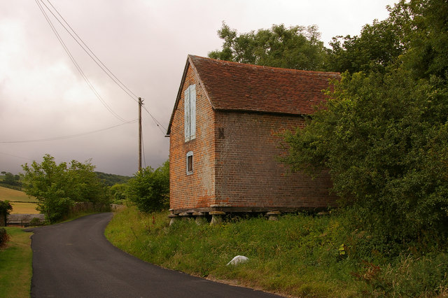 Former granary beside Rowridge Lane, Apesdown, Isle of Wight